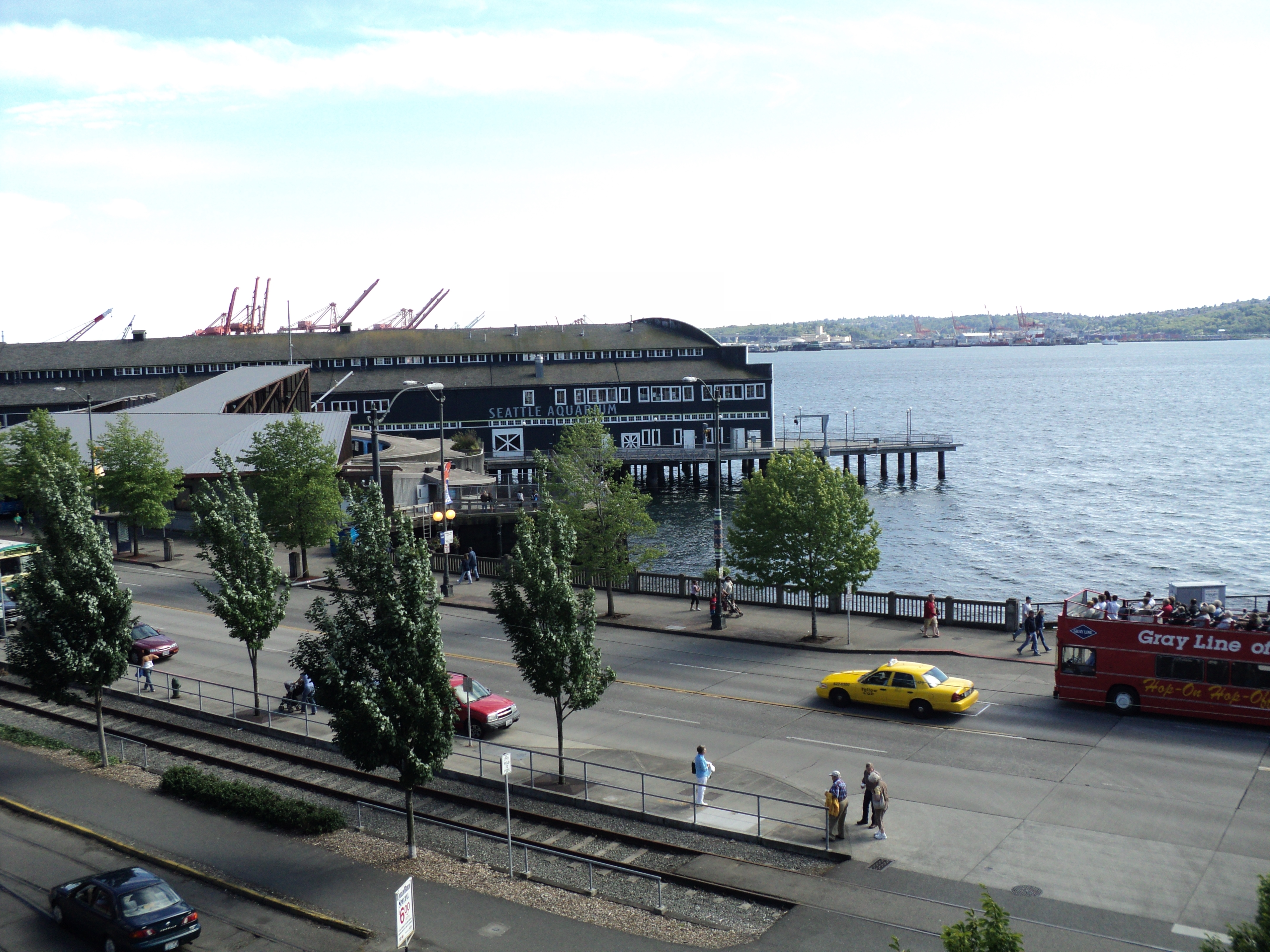 View of the Seattle Aquarium, with taxicab and tour bus, Alaskan Way, downtown Seattle, Washington.